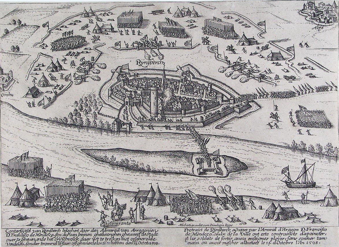 The siege of Rheinberg in 1598 by Mendoza. Etching. Rotterdam, Museum Boijmans Van Beuningen (inv.no. BdH 19201 (PK)).